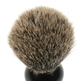 The picture of the silver tip badger hair used on a shaving brush